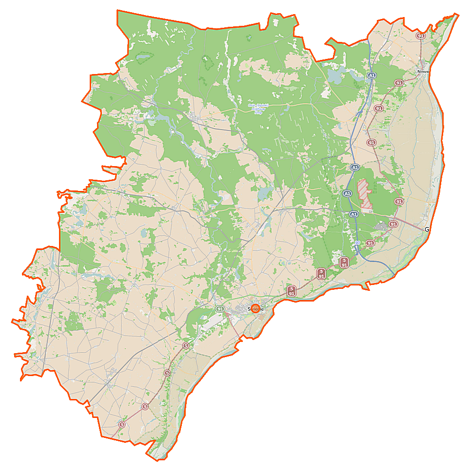 Map of Powiat świecki, Poland This map of Powiat świecki was created from OpenStreetMap project data, collected by the community. This map may be incomplete, and may contain errors. Don't rely solely on it for navigation. Border coordinates53.717418.0141←↕→18.807253.2426